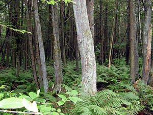 Acushnet Cedar Swamp in Massachusetts contains dense, almost 100% poor stands of Atlantic White Cedar. This wetland complex contains swamp, bog, pond and adjacent upland forest.